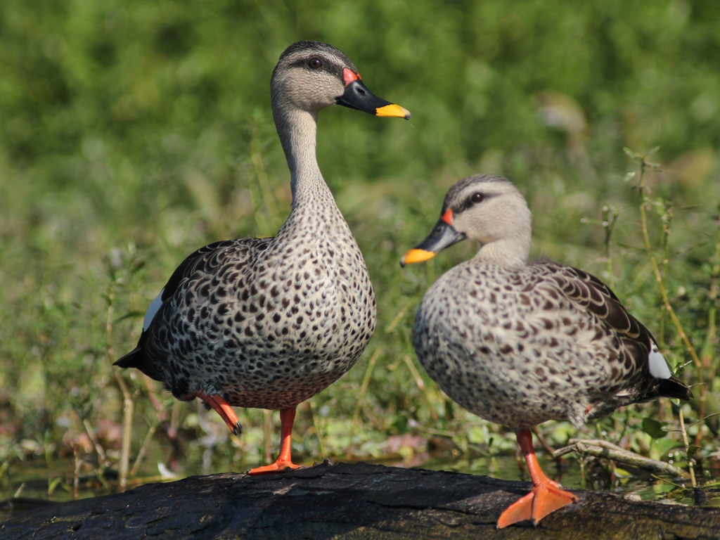 A pair of male Indian Spot-billed Ducks clicked at Karanji Lake in Mysore.